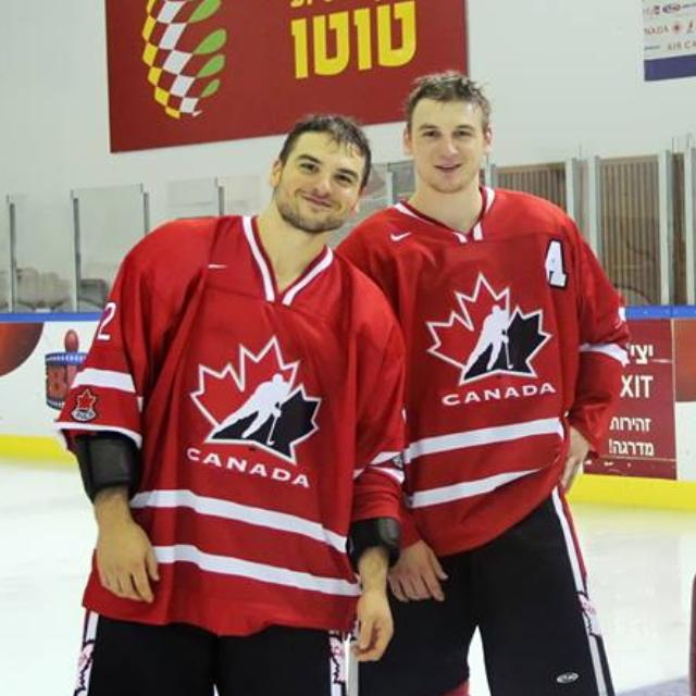 With brother Spencer, Zach Hyman helped Team Canada win a Gold Medal at the 2013 Maccabi Games